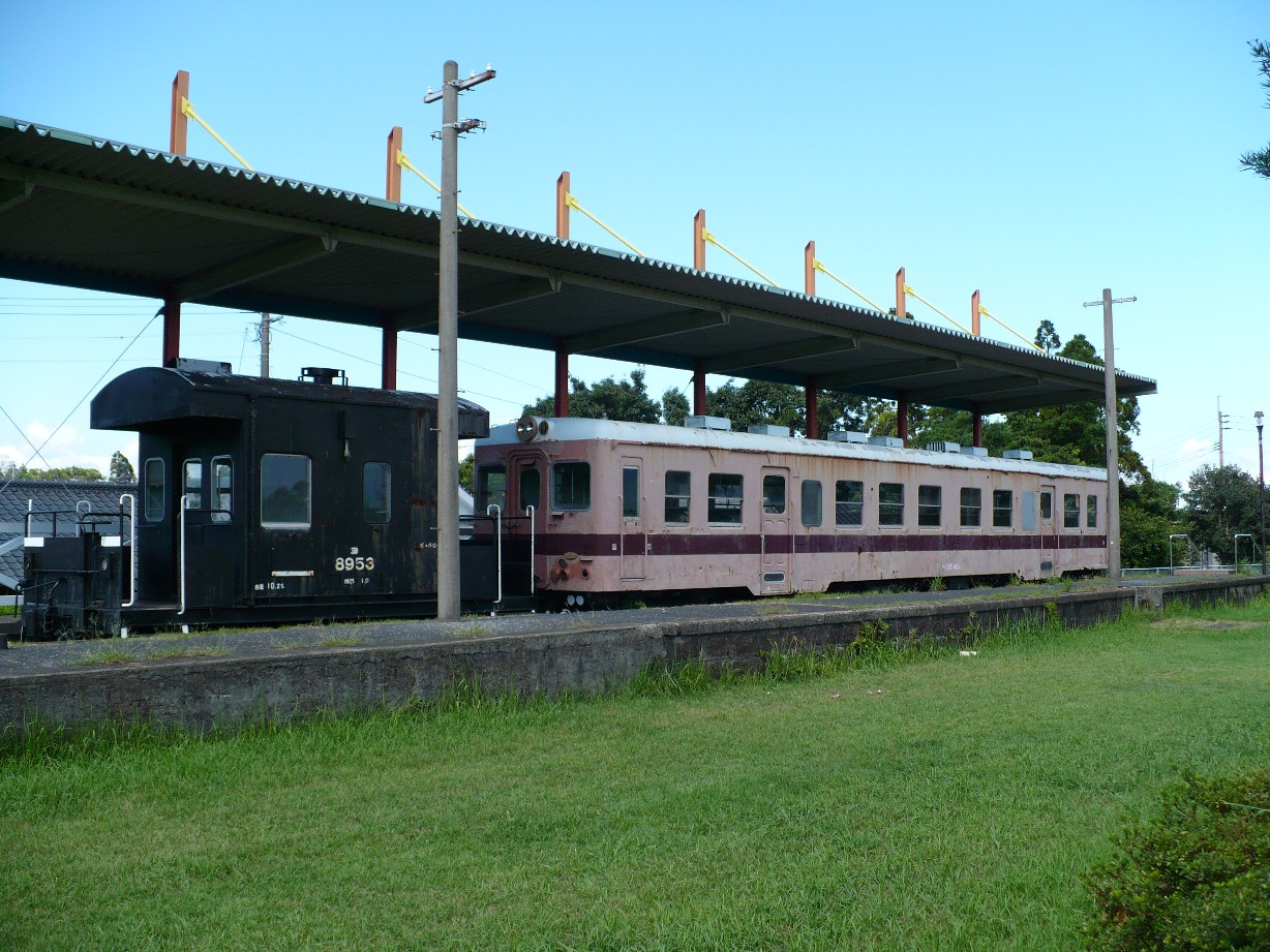 Remaining platform and preserved DMU and caboose at abandoned Aira railway station of JNR Osumi line, Kanoya, Kagoshima, Japan.